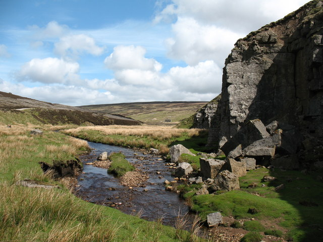 Mossdale Scar Descending Mossdale, this is the first outcrop of limestone that one sees. It is also the point where the beck finds the limestone and promptly disappears into it. The cave system created by the waters of the beck is long and complex and was the scene of a tragedy in 1967. The story is well told by other contributors to this particular grid square.